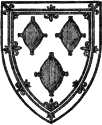 Thomas, Earl of Moray.